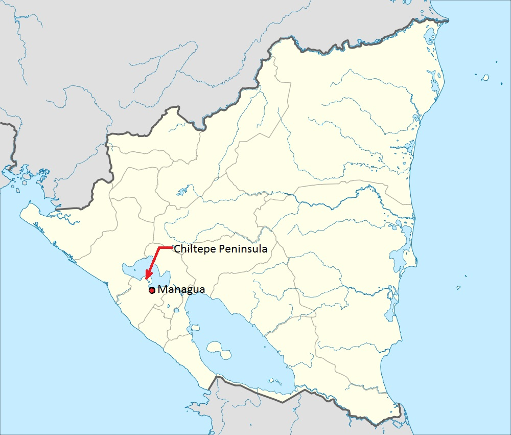 Location map Nicaragua with Departamentos, Equirectangular projection, N/S stretching 100 %. Geographic limits of the map: * N: 15.2° N * S: 10.6° N * W: -87.9° E * E: -82.5° E